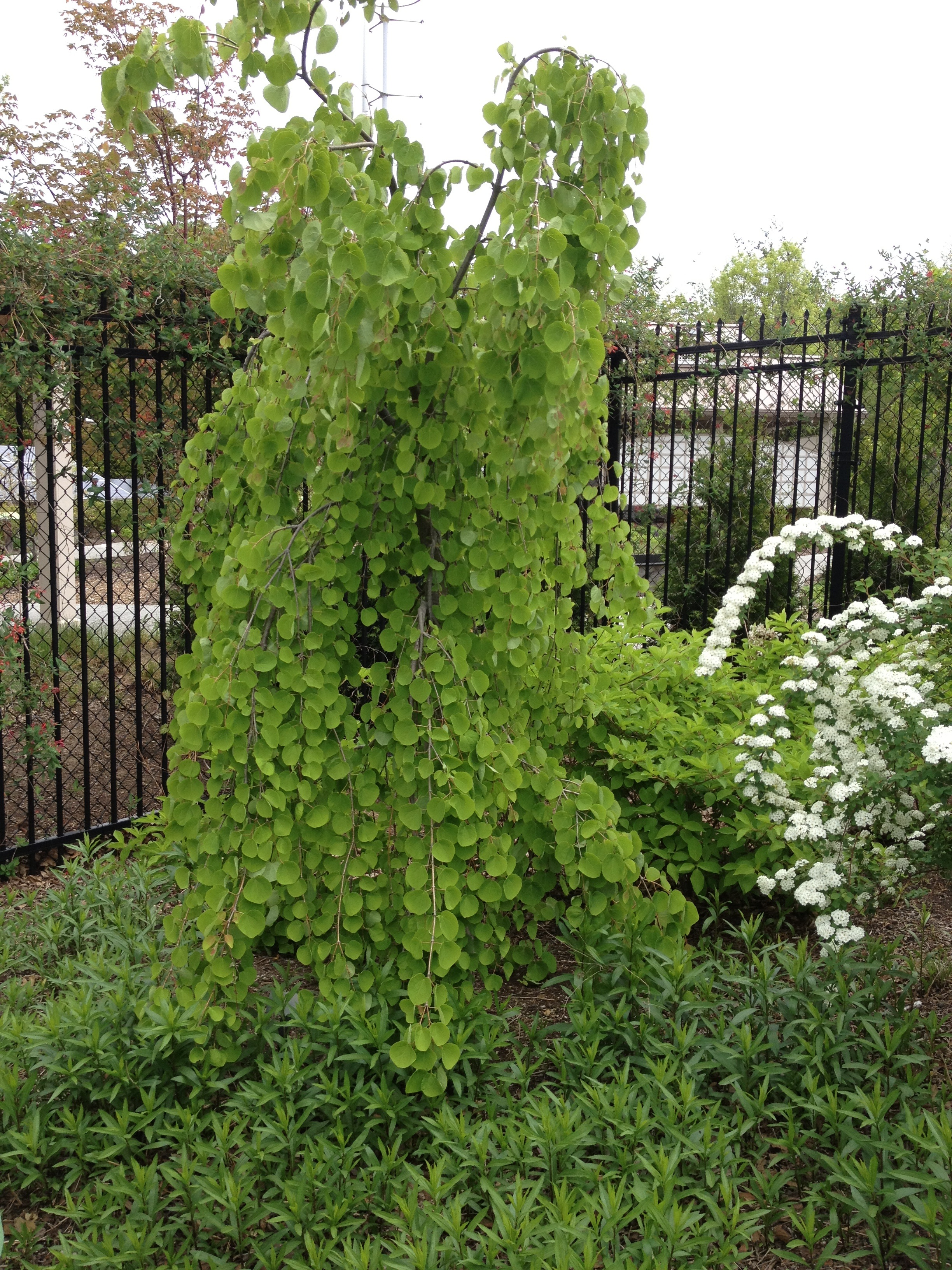 Weeping Katsura (Cercidiphyllum japonicum 'Pendulum') at the Cincinnati Zoo